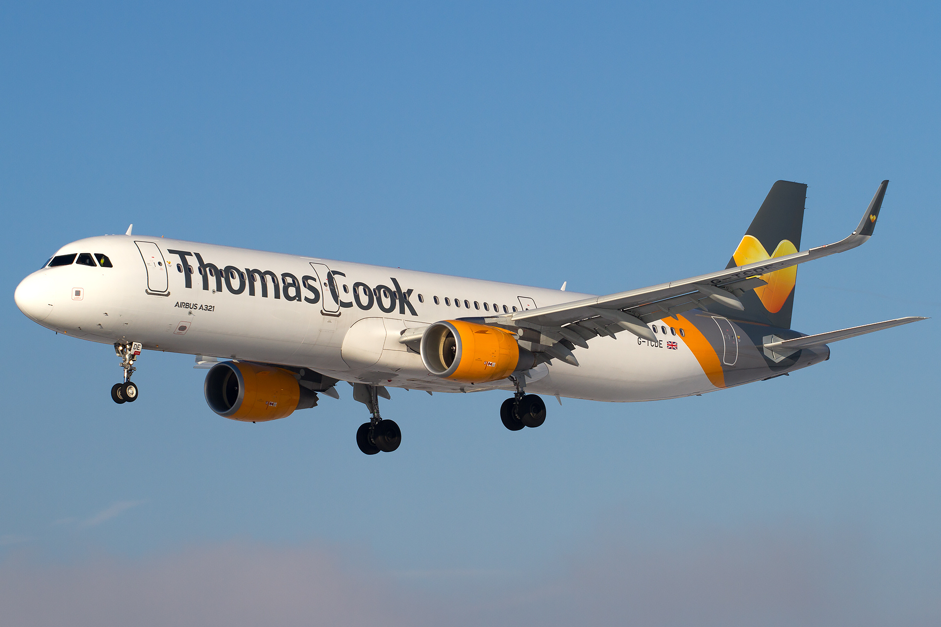 Thomas Cook Airlines Airbus A321-211 on finals into Salzburg Airport